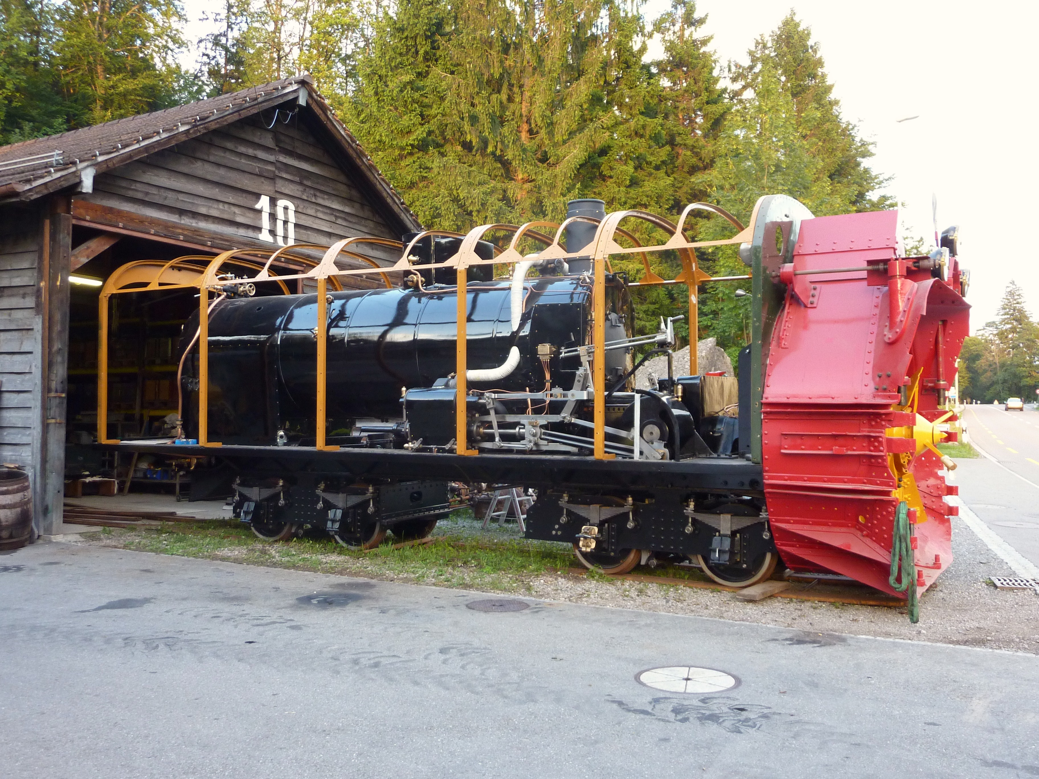 Rhaetian Railway (RhB) rotary snow plough No. R 12 in November 2010 in Goldau, Switzerland, where it is beeing renewed from its new owner DFB (Dampfbahn Furka Bergstrecke); as the walls and the roof are still not installed, there is a free view to the steam boiler and the cylinders of the steam engine.